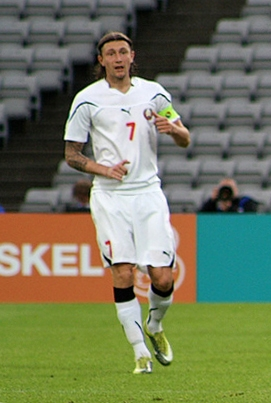 Mikhail_Sivakov